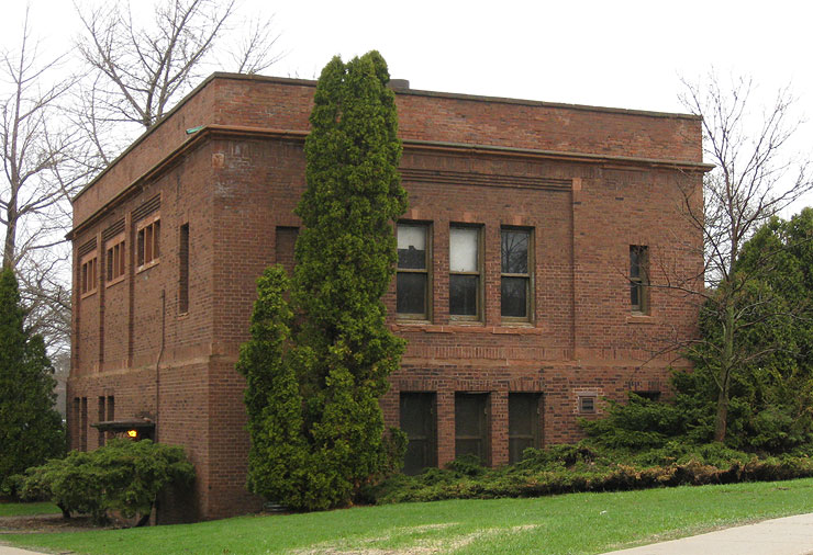 The Thomas A. Greene Memorial Museum — on the campus of UW-Milwaukee. Designed by architect Alexander C. Eschweiler. On the National Register of Historic Places in Milwaukee County. Taken with a Canon PowerShot SD850 IS on April 25, 2009. Category:Images of universities and colleges of Wisconsin